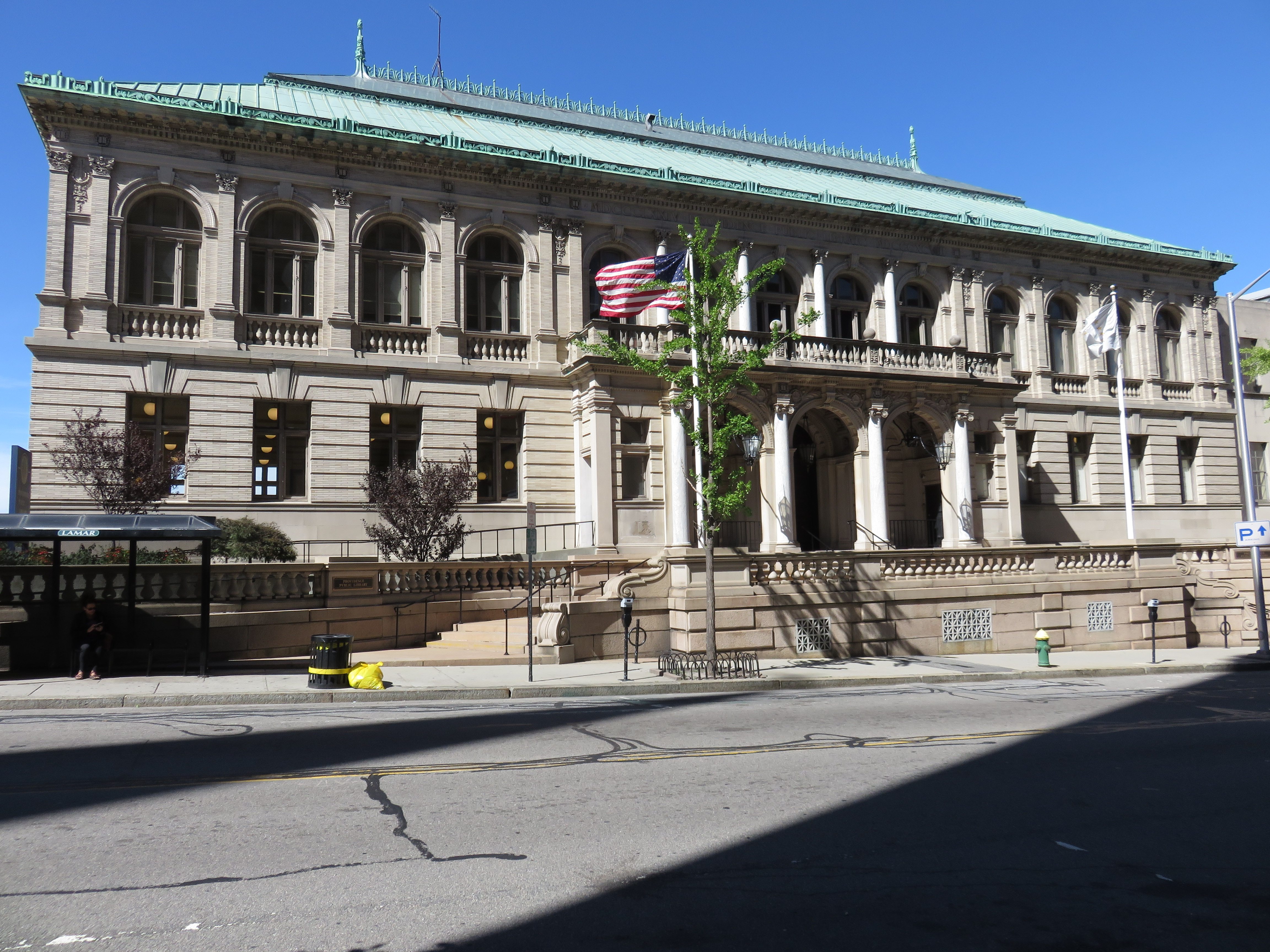 Southeast face of the Providence Public Library in Providence, Rhode Island in 2015